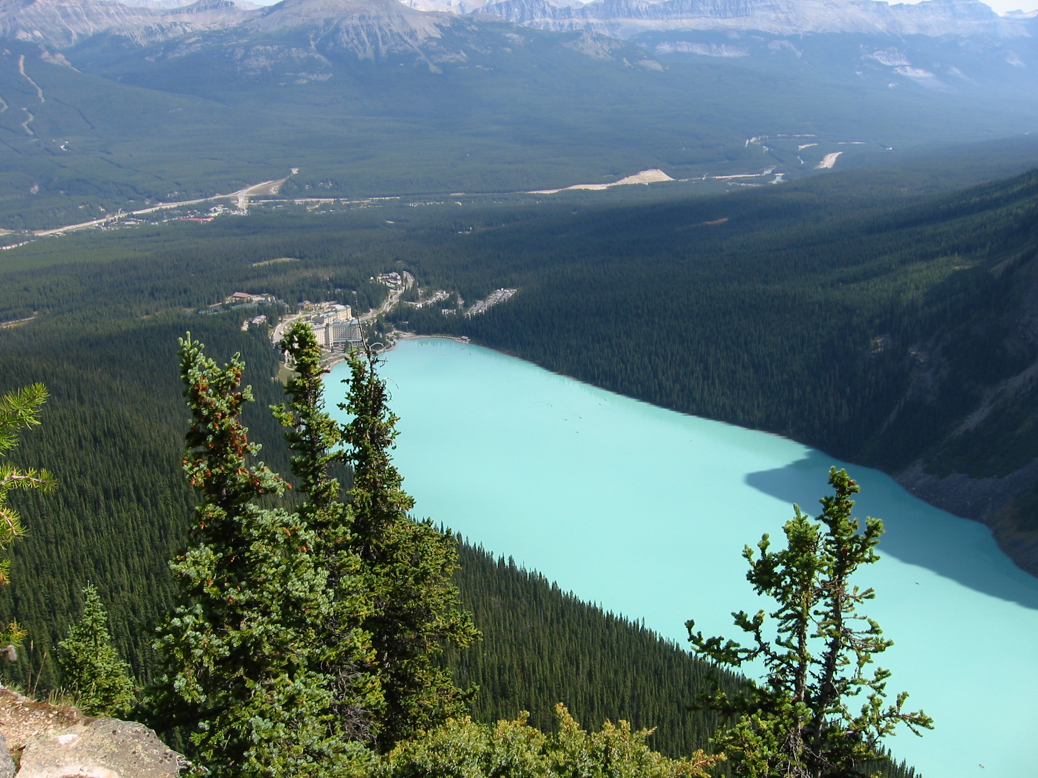 View of Lake Louise (Alberta, Canada) from the top of the Big Beehive